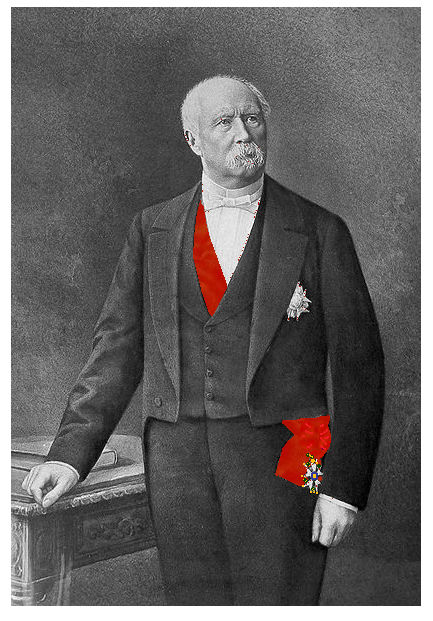 Portrait. "digitally colloured" by Robert Prummel In publish it under If this file is eligible for relicensing, it may also be used under the Creative Commons Attribution-ShareAlike 3.0 license. The relicensing status of this image needs to be manually reviewed by an experienced user. You can help.